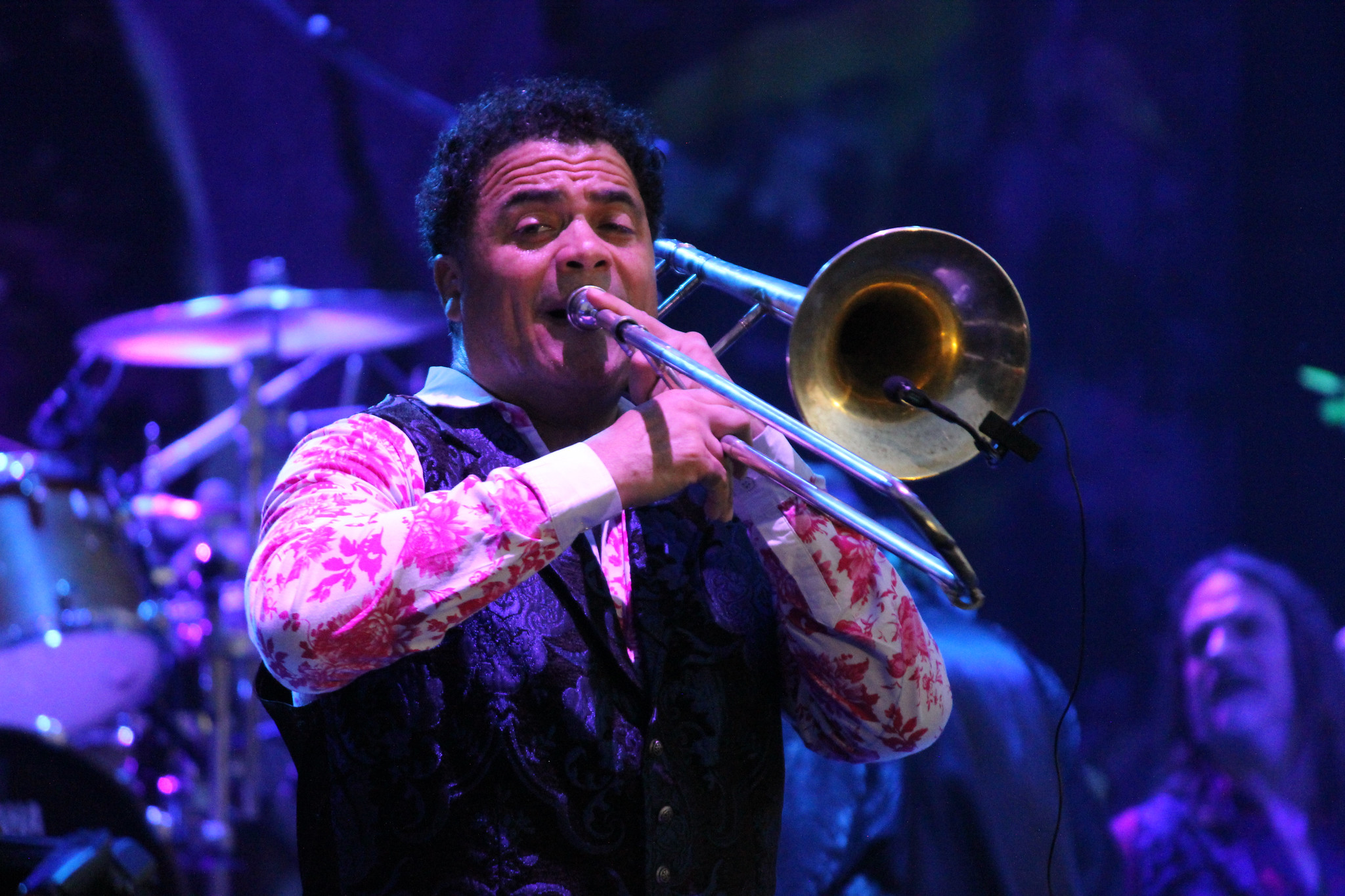 Clark Gayton performing with Little Steven and the Disciples of Soul at the City of Omaha Celebrates America concert at Memorial Park in Omaha, Neb.